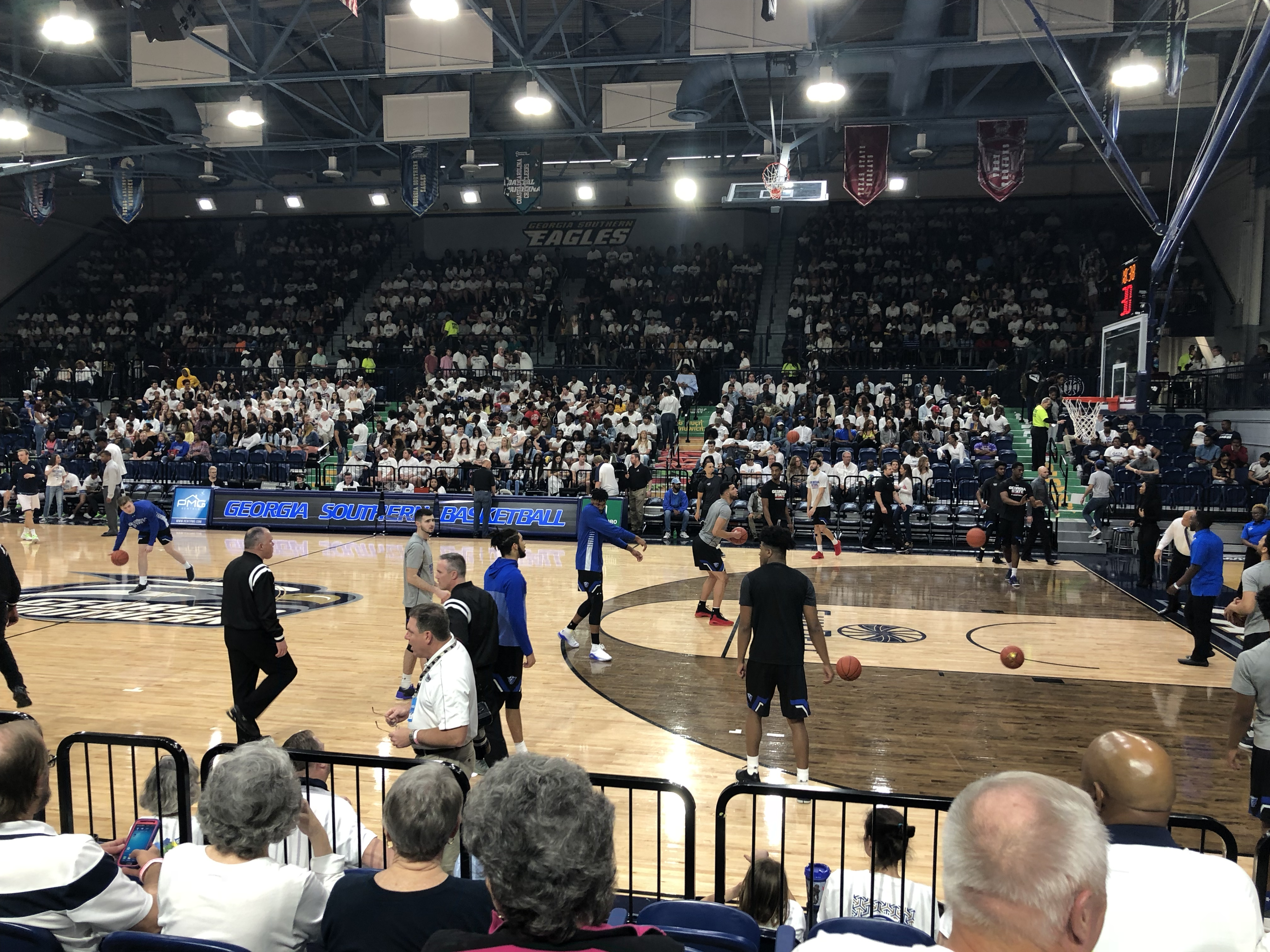 Hanner Fieldhouse on the Campus of Georgia Southern University in Statesboro, Georgia